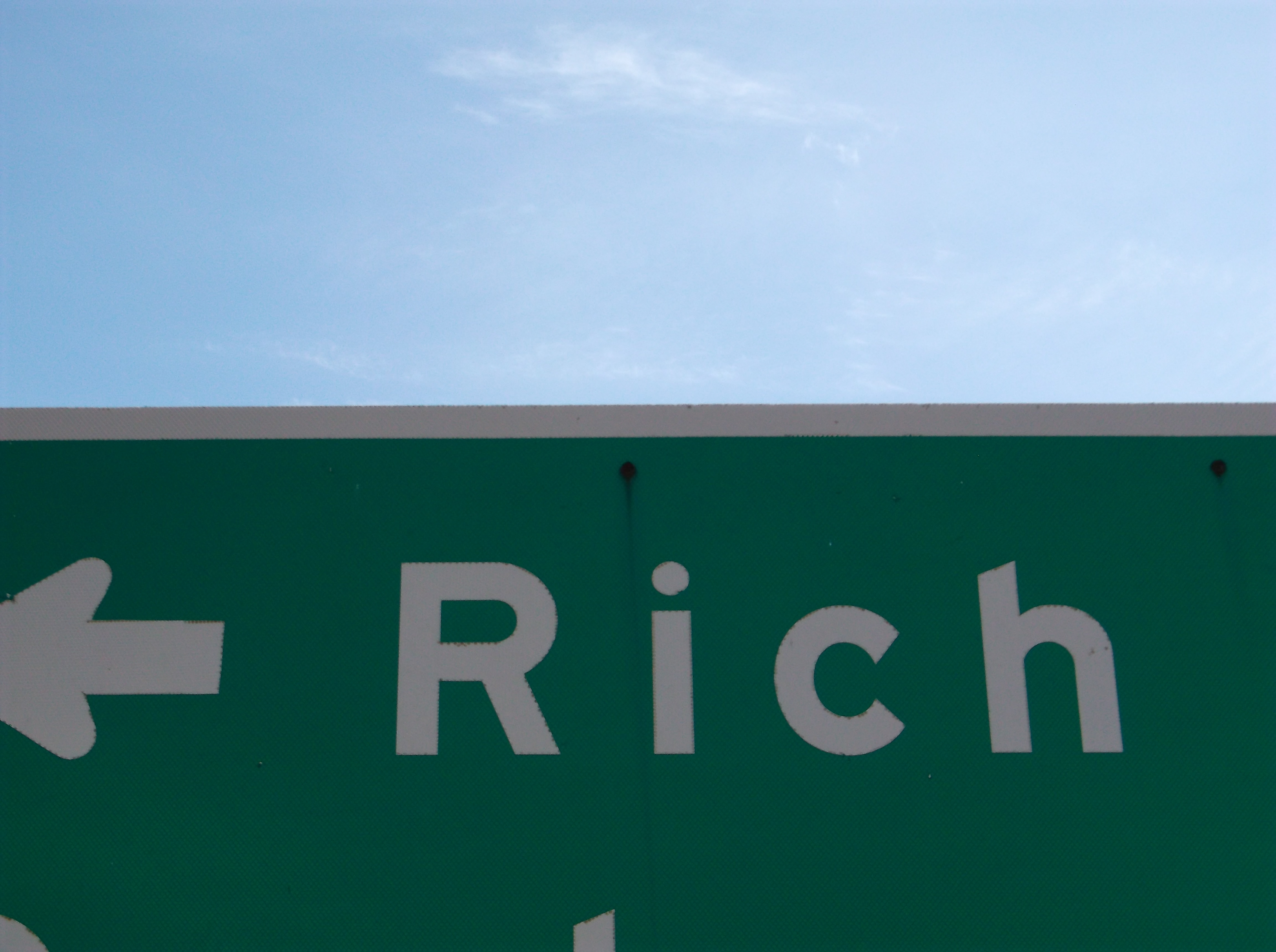 Highway sign located on US Highway 61